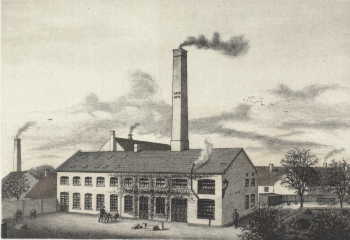 Camillus Nyrops Fabrik at Ryesgade 105 in Copenhagen, Denmark